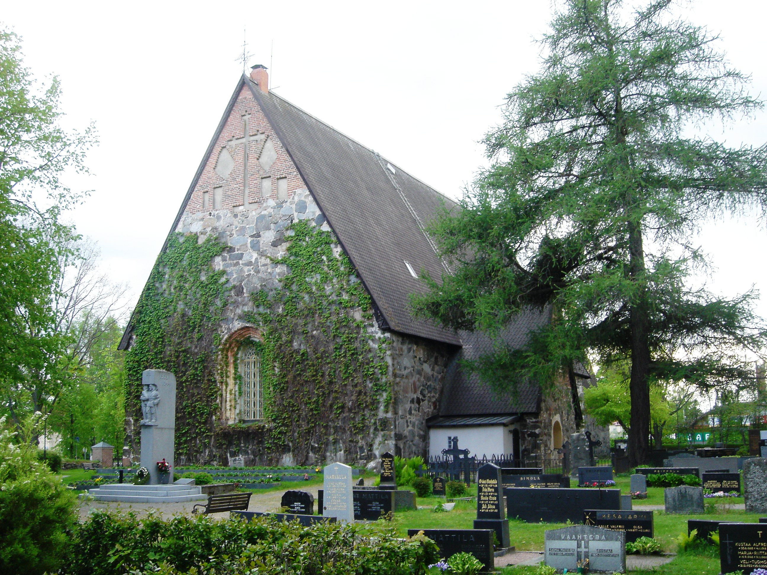 Medieval Lammi Church in Hämeenlinna, Finland, was built between 1490 and 1510 and was dedicated to St. Catherine of Alexandria.